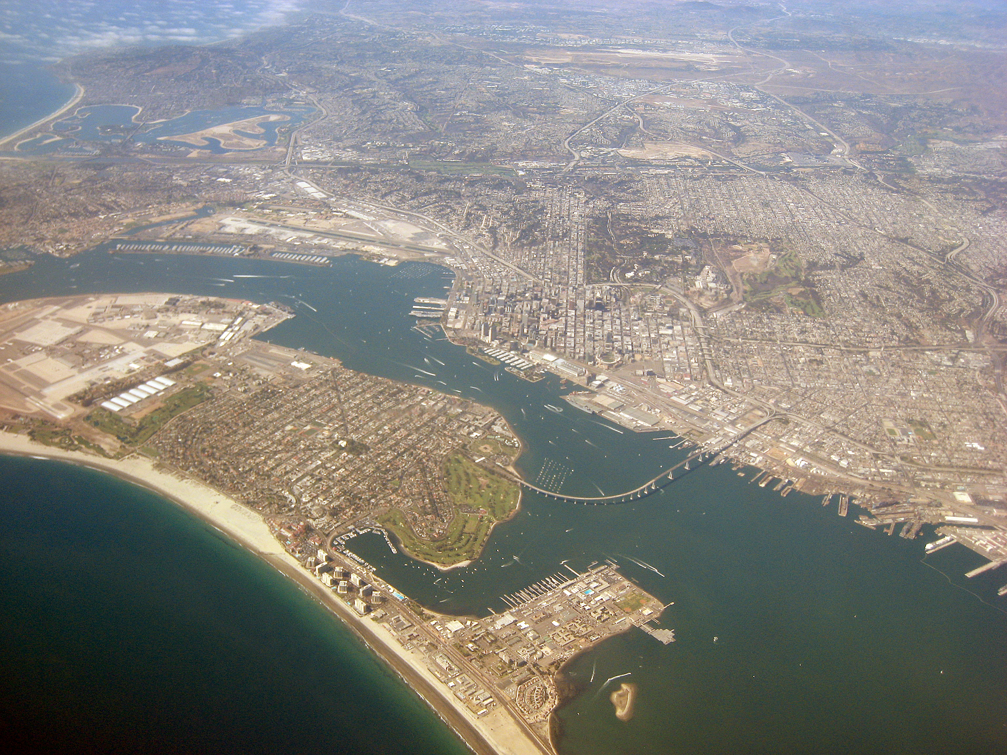 View of Coronado and San Diego from the air.